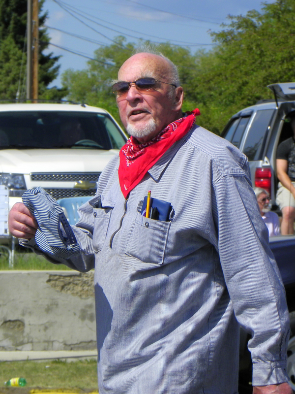 Copyright 2009 Patia Stephens